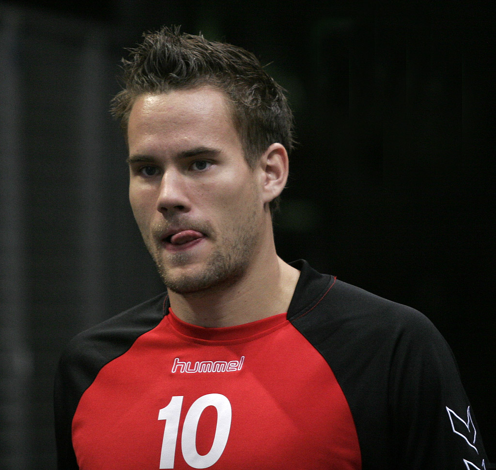 Thomas Mogensen, handball player of SG Flensburg-Handewitt, in the Kölnarena prior the gane VfL Gummersbach - SG Flensburg-Handewitt